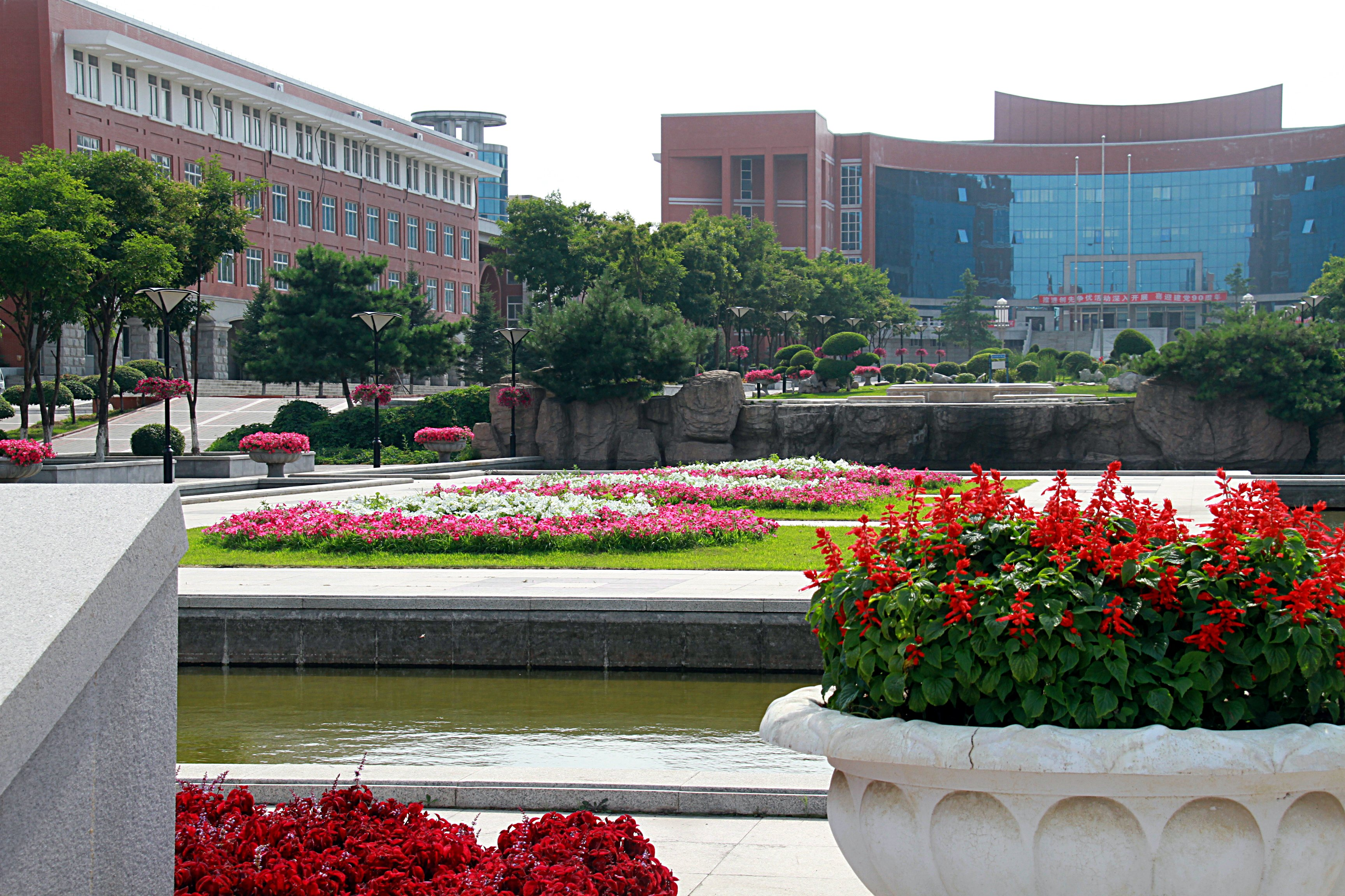 Photograph a garden axes on the new campus of Northeast Normal University in Changchun, Jilin Province, China.